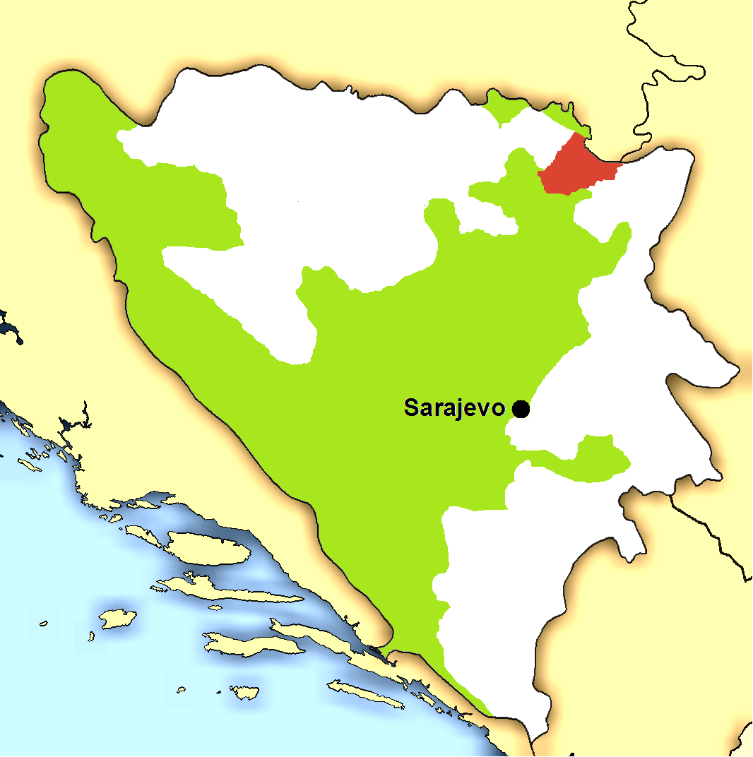 Map of the Federation of Bosnia-Herzegovina (Finnish)